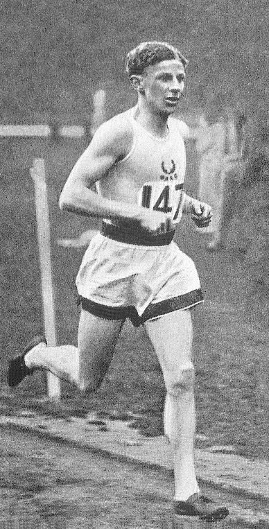 W.A. & A.C. Churchman cigarette card of Jack Lovelock. Card no. 46 of a series of 50 cards titled "Kings of Speed"